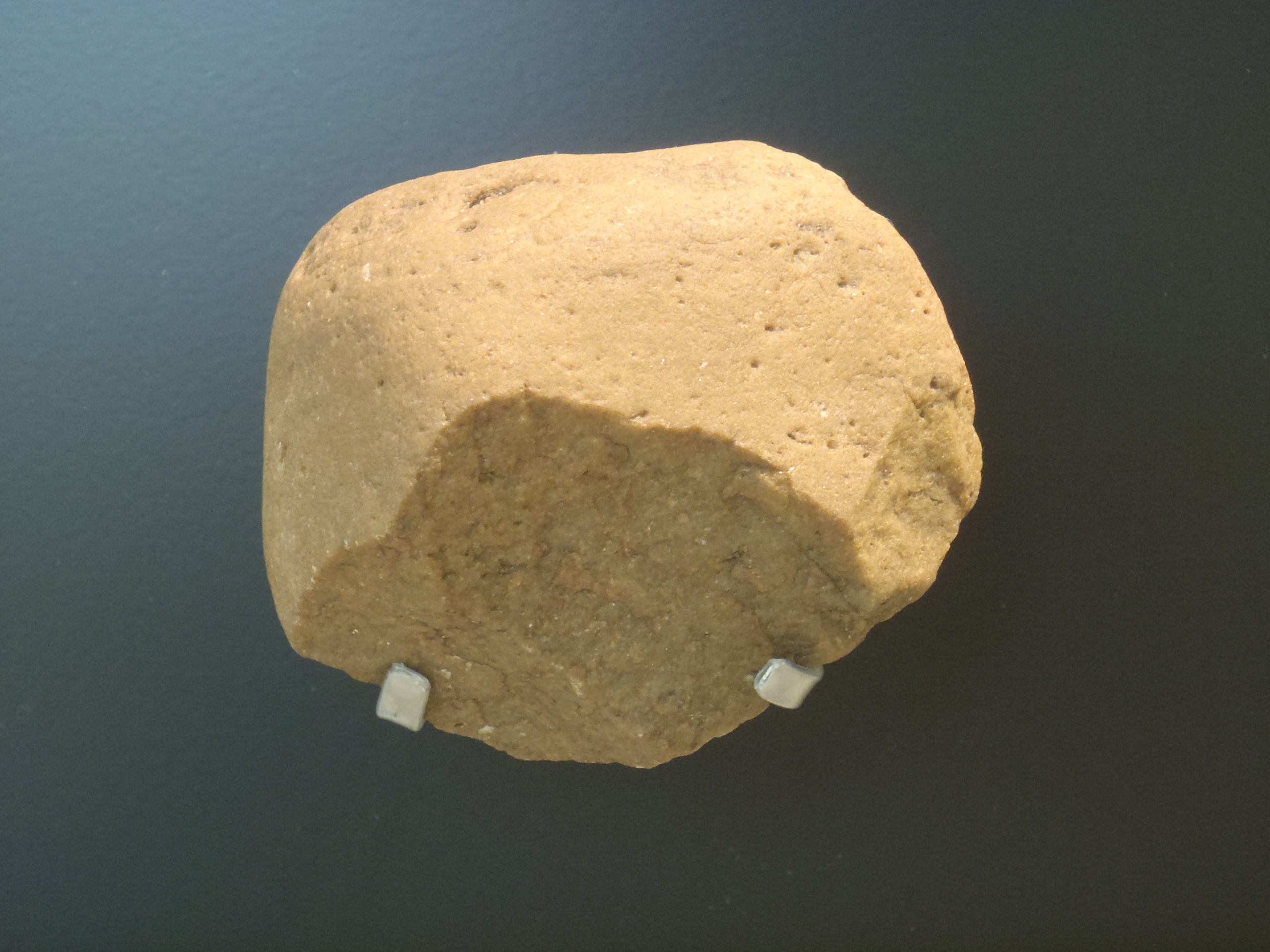 A stone implement, a so-called chopper, from Gabarones, Botswana. 2.5-1 million BC as exhibited at Nationalmuseet, Denmark.